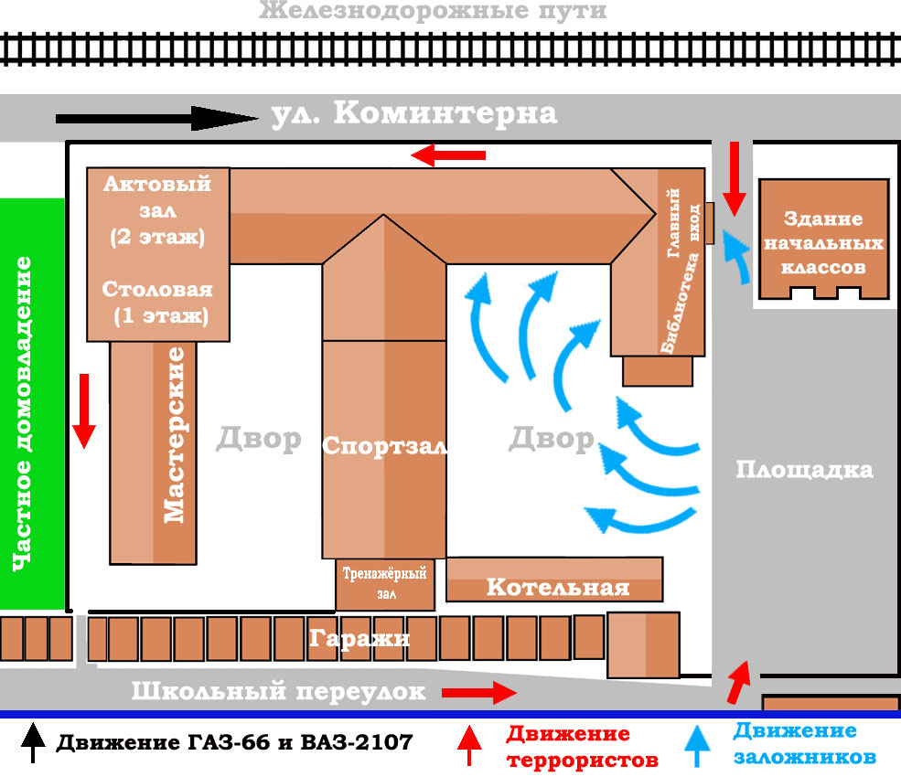 Overhead map of the school for the "Beslan hostage crisis" article, based on Wikibob's original image.